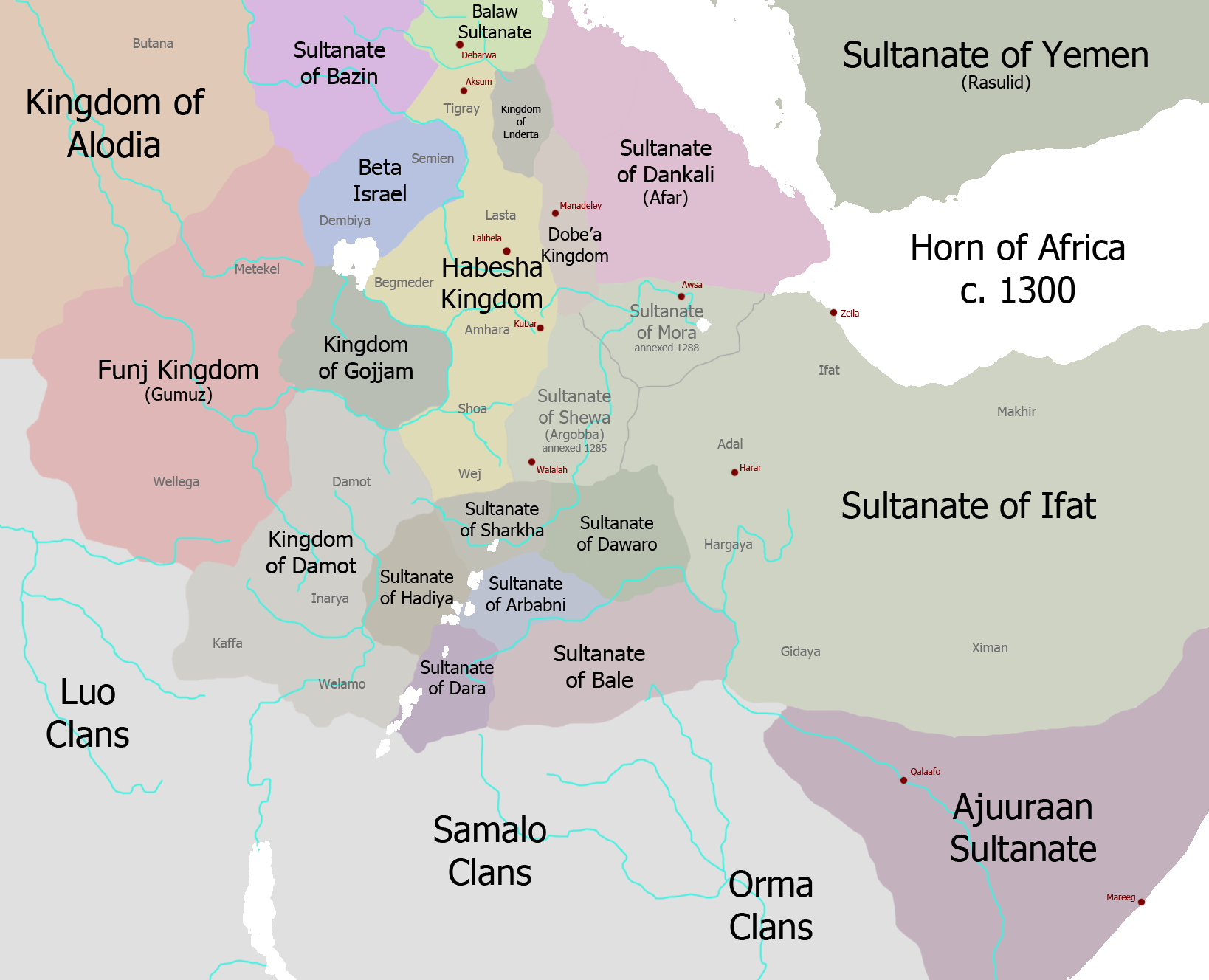 Map of Ethiopia circa 1300